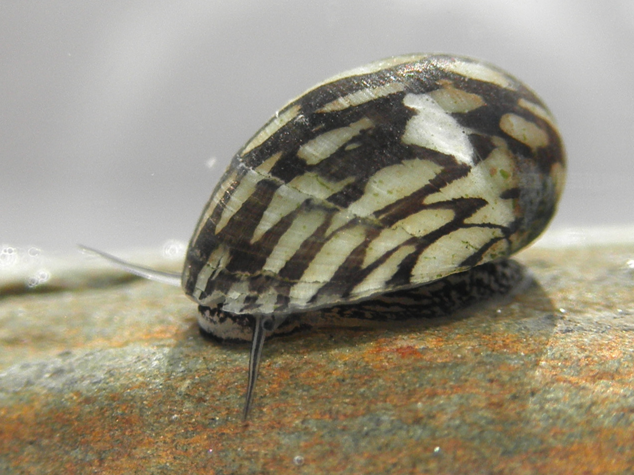 Photo of an oblique left side view of a live Theodoxus fluviatilis.